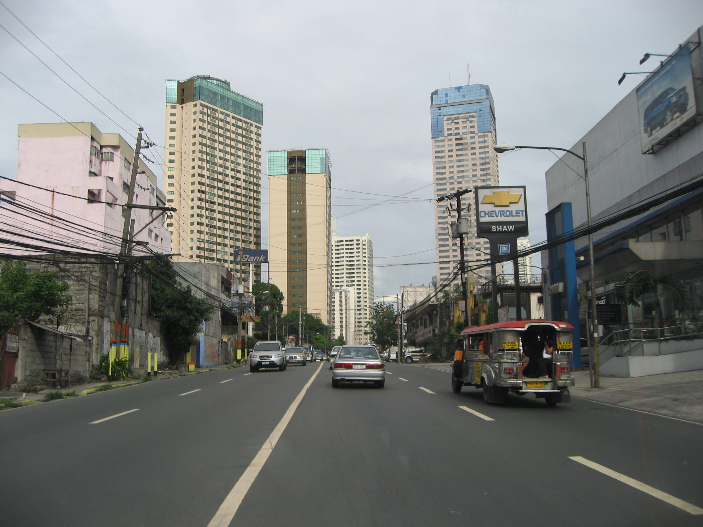 Shaw Boulevard, a major street in Mandaluyong City, looking towards the east.